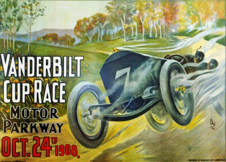 Carl Kunst / Poster 1908